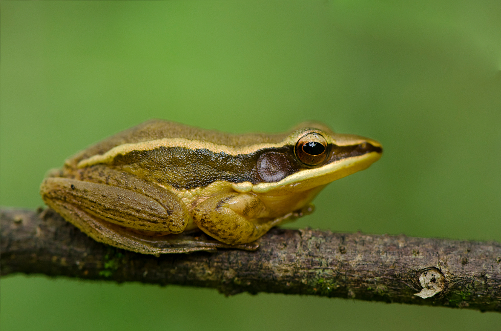 Hylarana aurantiaca recorded from Agumbe Rainforest Research Station,Karnataka,India.